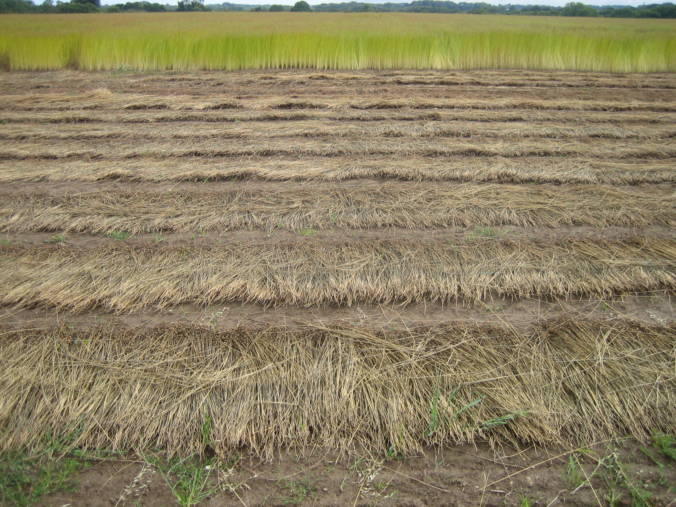 Flax field near Fécamp, Département Seine-Maritime, Region Haute-Normandie, France.